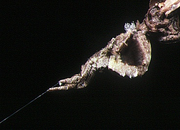 Female Hyptiotes affinis from Okinawa (Japan).